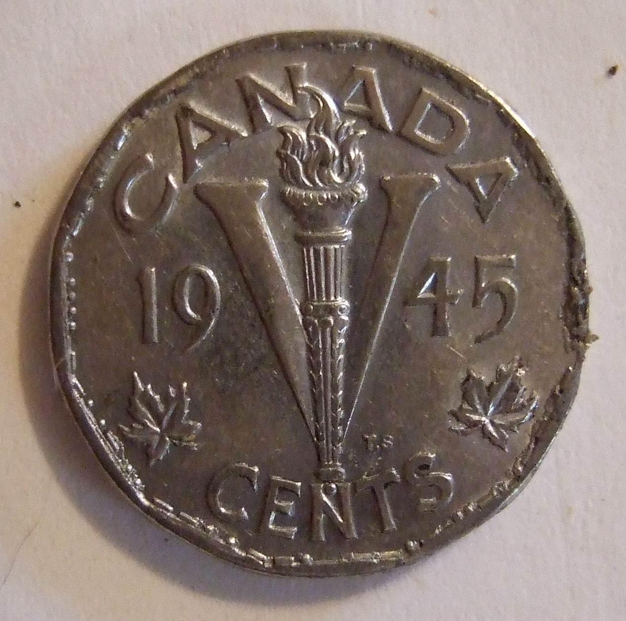 CANADA, FIVE CENTS 1945 ---WHITE METAL a